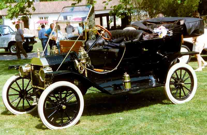 Ford Model T Touring 1911